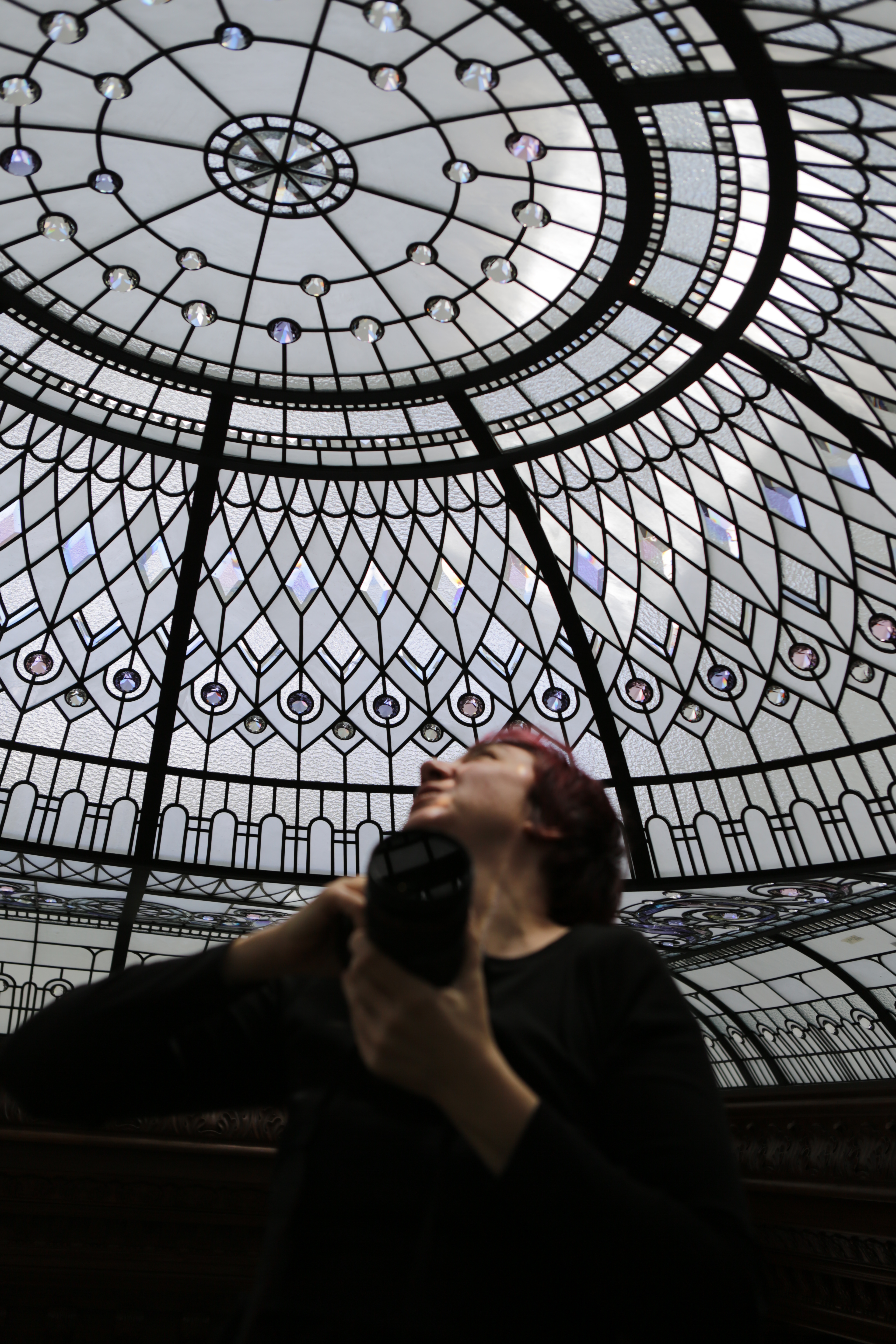 Taking images of the finished stained and leaded glass domed ceiling after installation at the client's house in Connecticut, USA